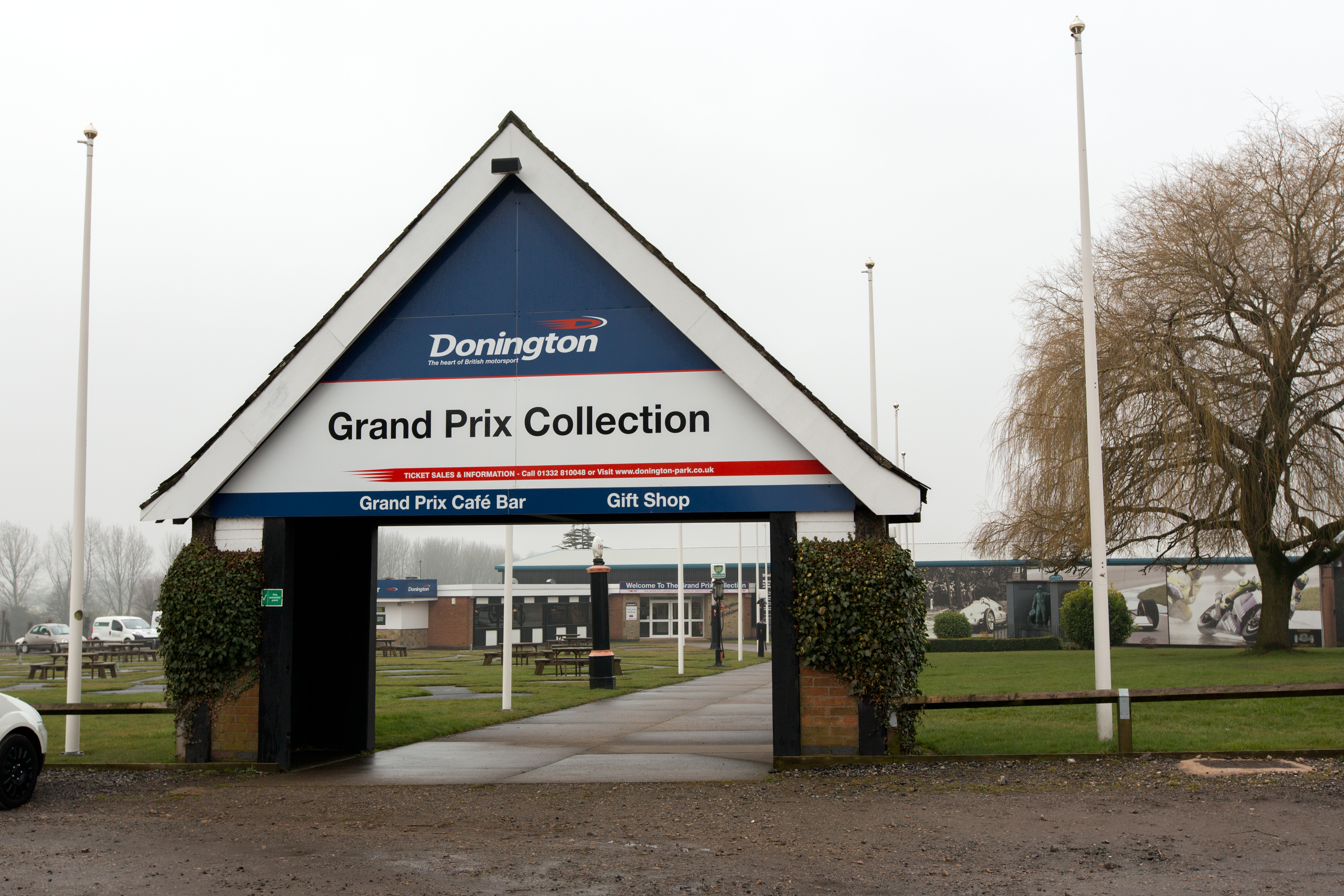 Donington Grand Prix Collection